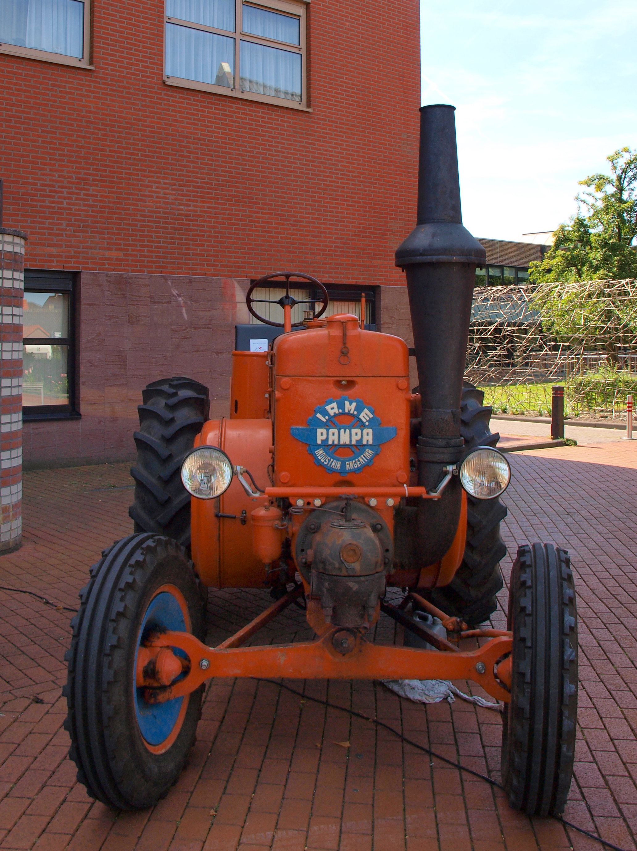 I.A.M.E. - Pampa - Tractor